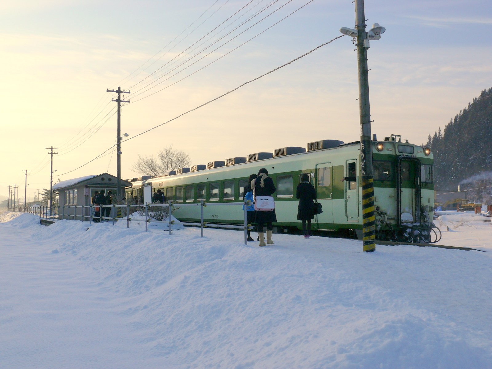 East Japan Railway Kiha58-1502 Diesel railcar at Hanawa Line Ogita Station